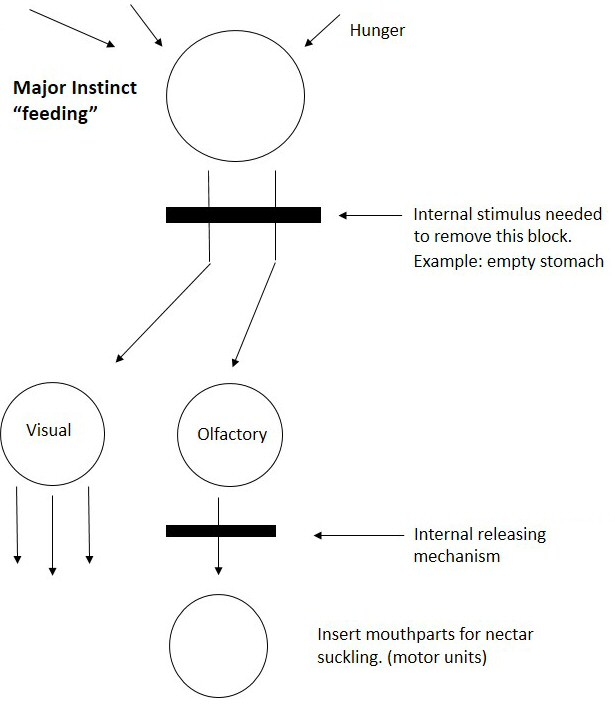 Figure 1. Tinbergen's hierarchical model as adapted from The Study of Instinct (1951). Describes motivational sequence of a honey bee foraging.